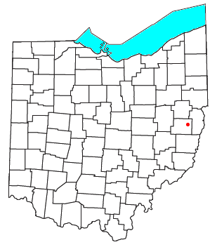 Locator map of the unincorporated community of Pittsburgh Junction in Harrison County, Ohio, United States.